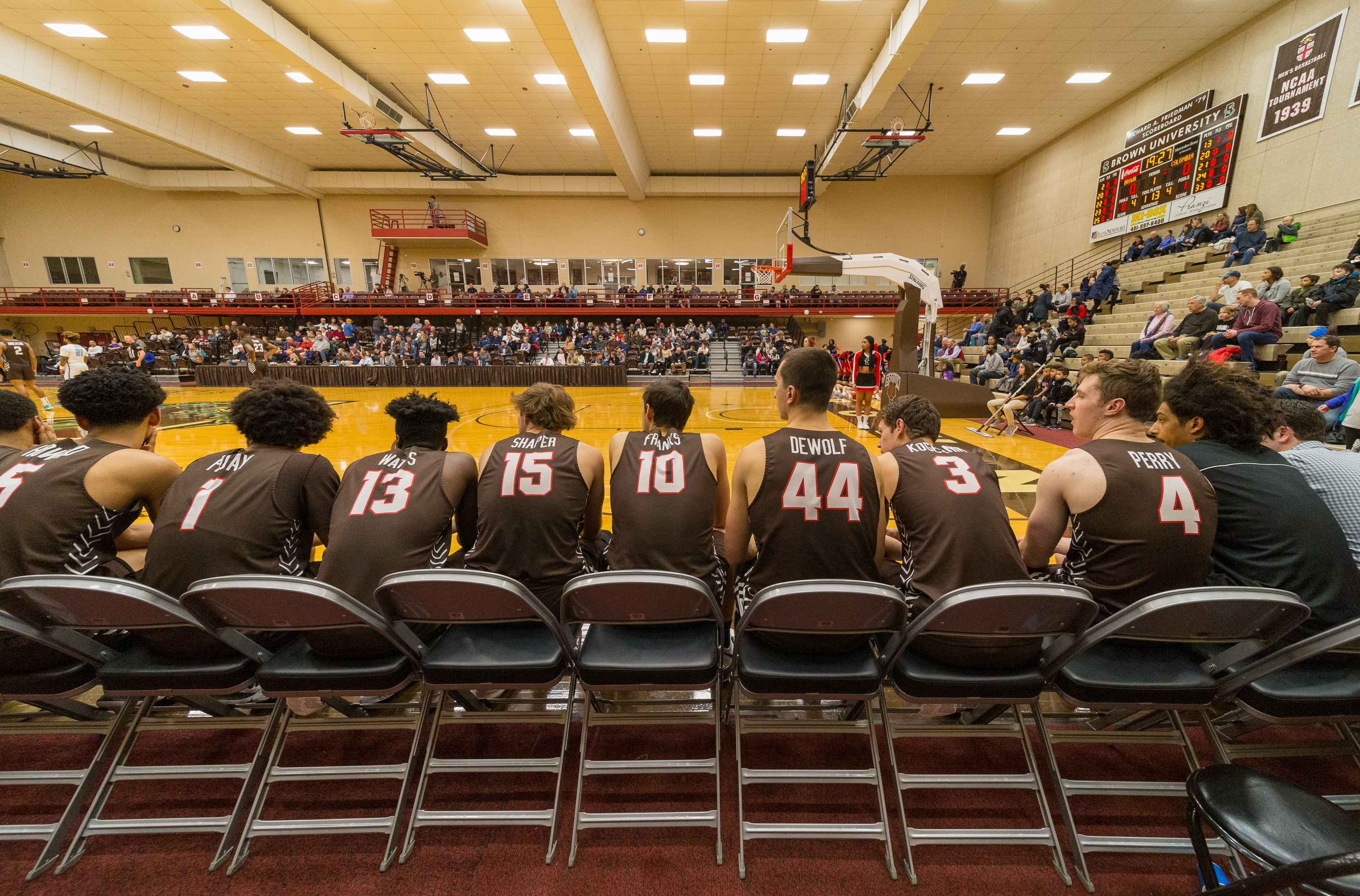 Brown vs. Columbia basketball at Pizzitola Center. Brown won, 72-66.